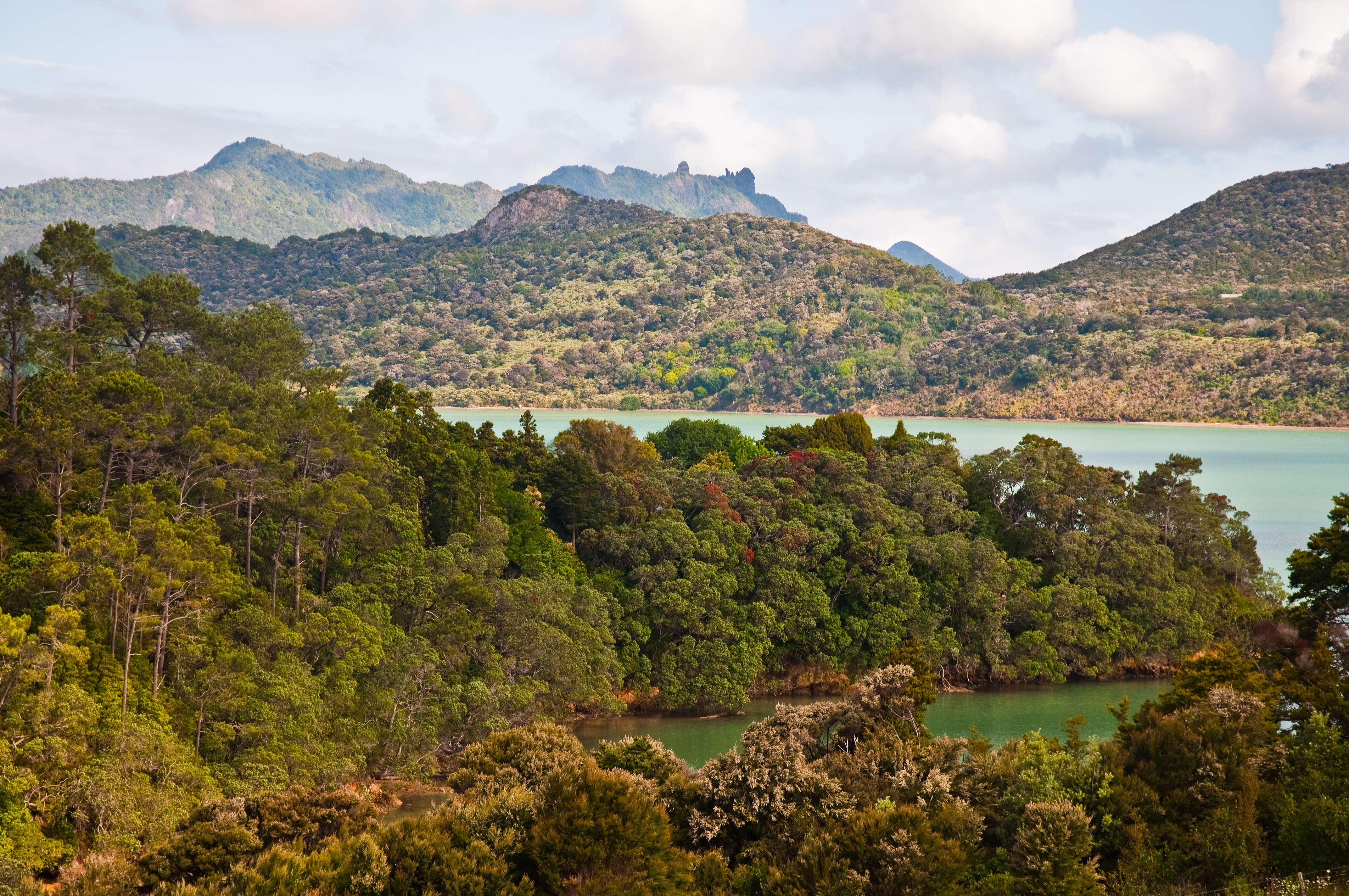 Parua Bay, Northland, New Zealand, 4th. Dec. 2010